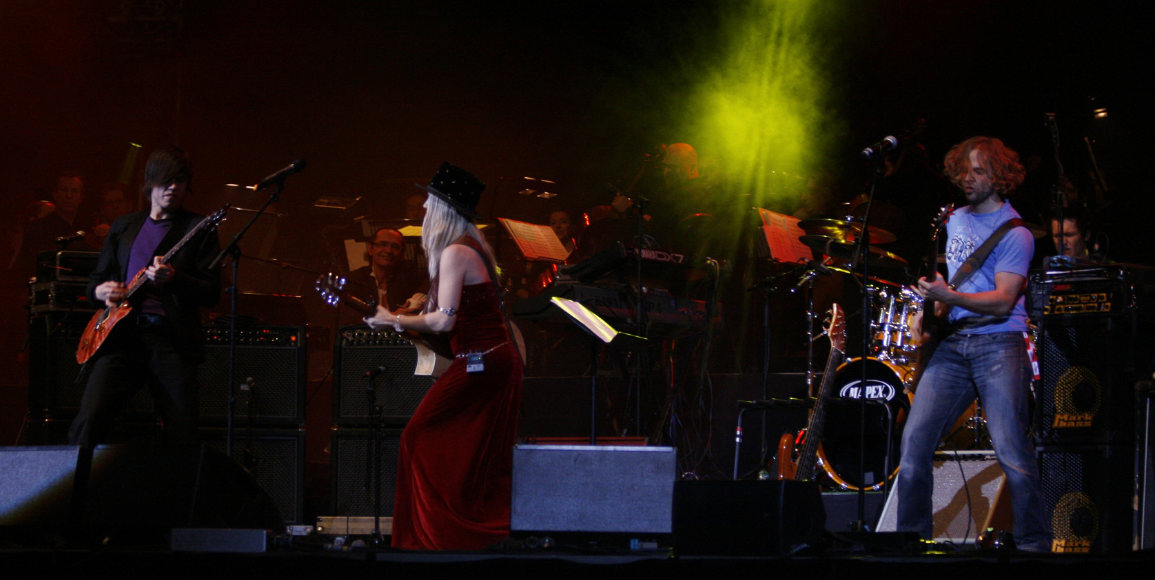 Austrian band SheSays; charity concert 'atemberaubend 08' in support of researching pulmonary hypertension (lungenhochdruck.at) at the Wiener Stadthalle.